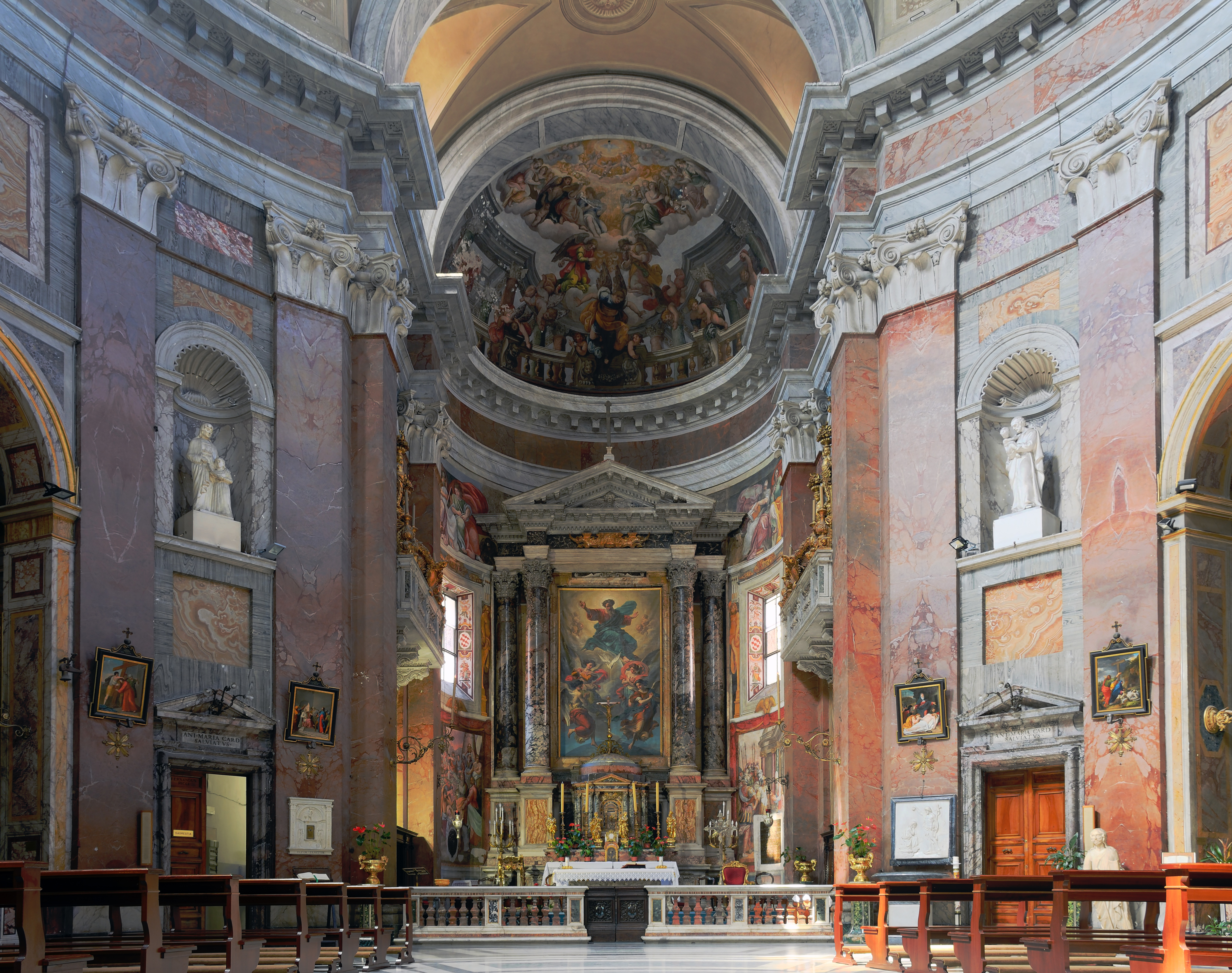 San Giacomo in Augusta (Rome) - Intern